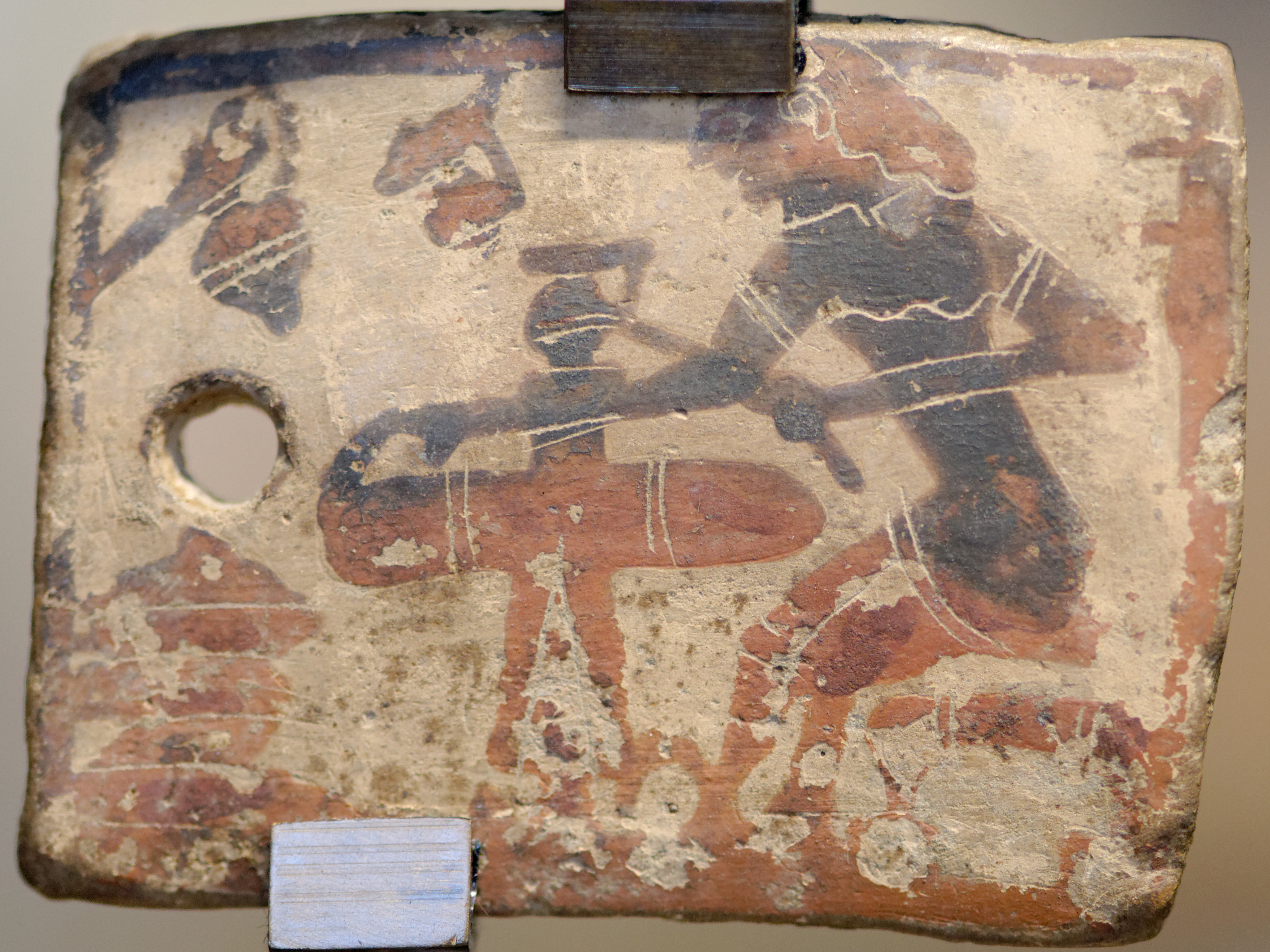 Workshop of a potter. Side A of a Corinthian black-figure pinax, ca. 625–600 BC. From Penteskouphia.